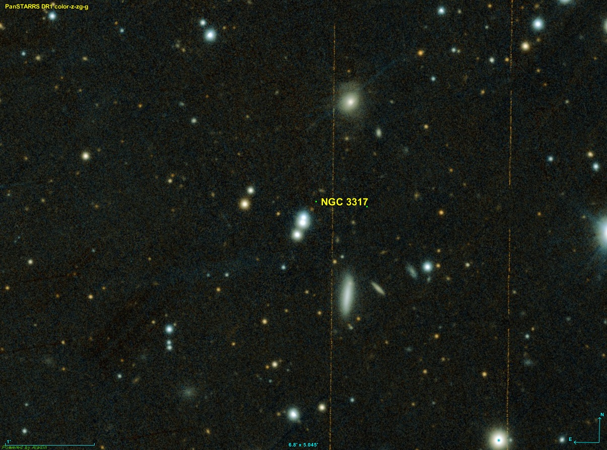 Image created using the Aladin Sky Atlas software from the Strasbourg Astronomical Data Center and Pan-STARRS (Panoramic Survey Telescope And Rapid Response System) public data.